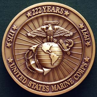 Obverse of 222nd United States Marine Corps birthday celebration.